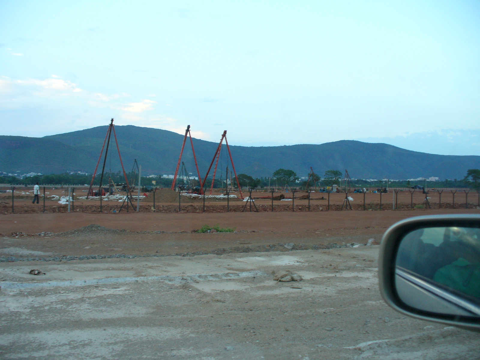 Was taken at the site of the new Vizag International Airport terminal, and runway.